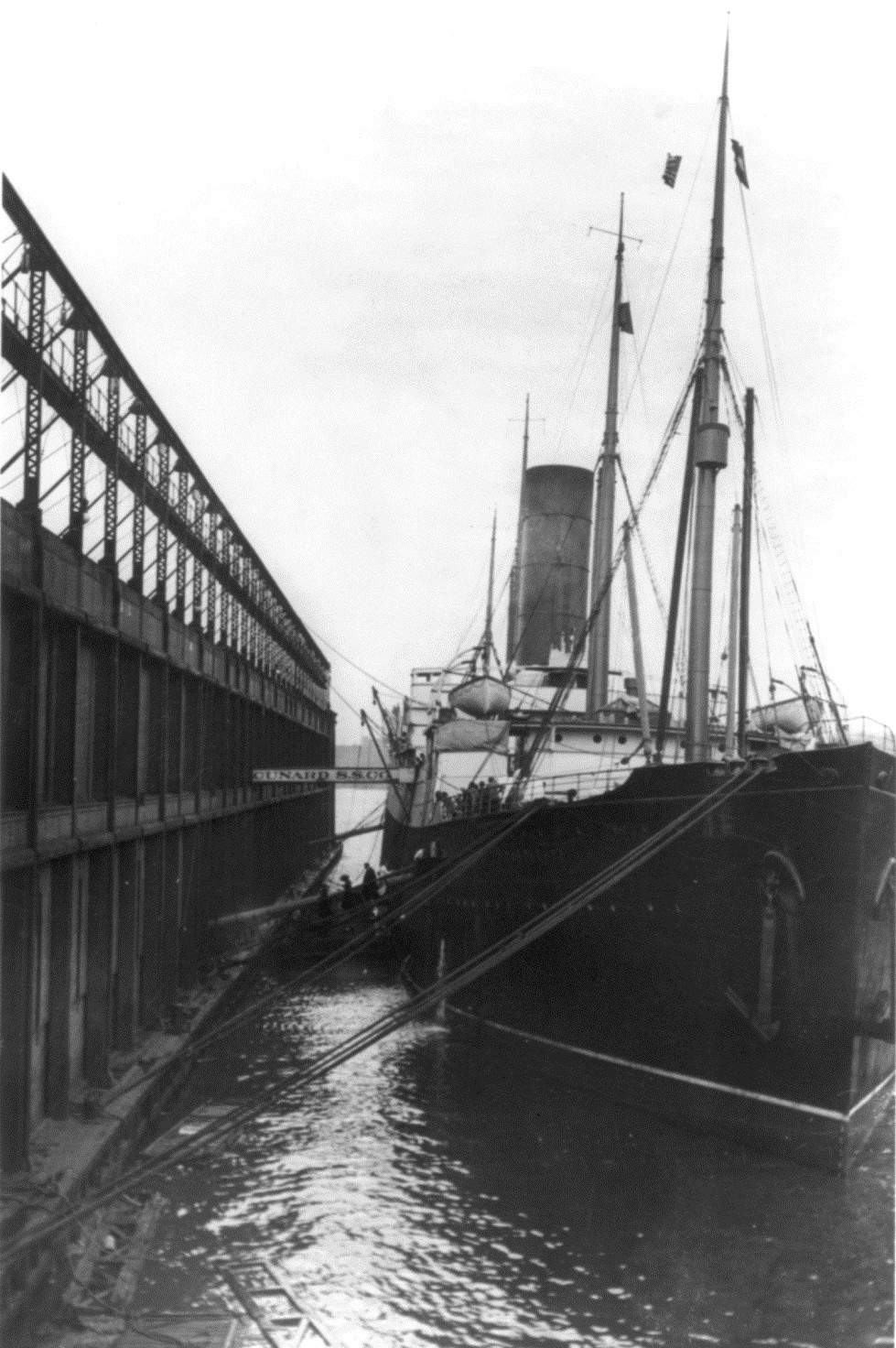 The ship Carpathia at the Cunard Lines' Pier 54 following its rescue of the Titanic survivors.